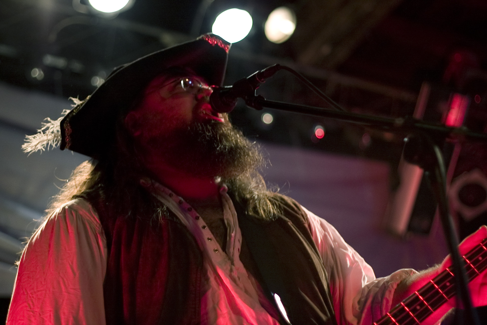 Admiral Nobeard, singer/bassist of the metal band Swashbuckle, at Paganfest America 2009 in Seattle, WA.